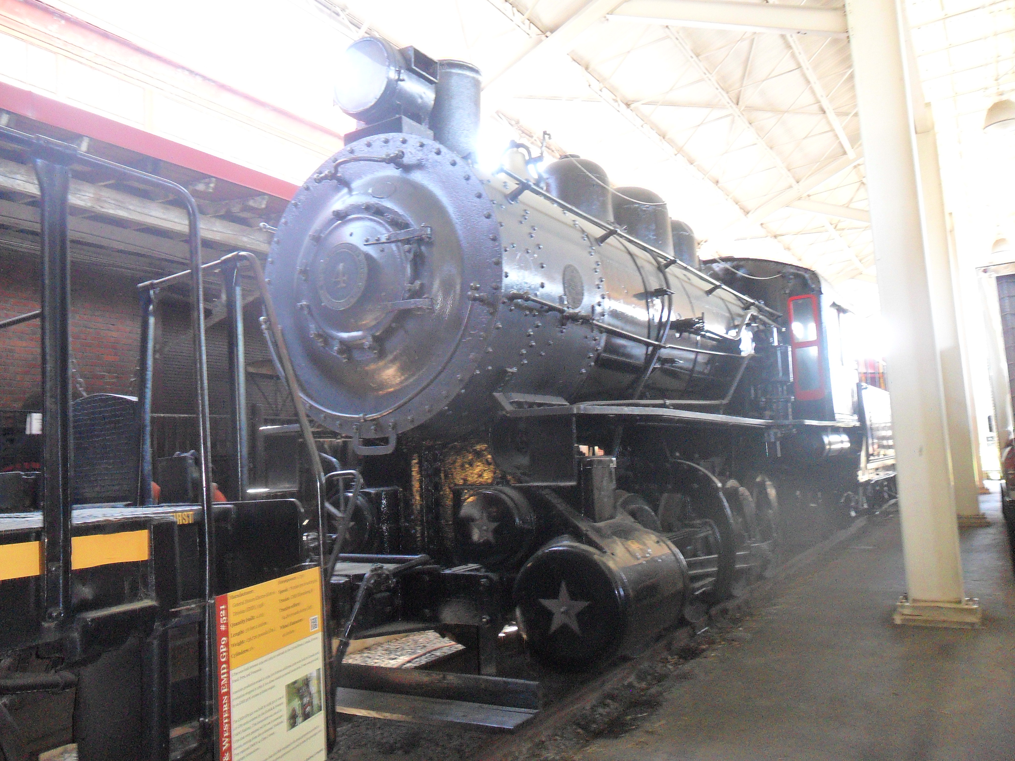 Locomotive 4 for the Virginian Railway. Built between 1909-1910 by Baldwin, this switcher engine could go up to 10 mph. It served until 1957, when it was put on display in Princeton, WV, for 3 years. After suffering vandalism, it was traded to the Norfolk & Western Railway, which restored it and donated it to the Virginia Museum of Transportation in 1963. It is the last surviving steam engine from the Virginian Railway.